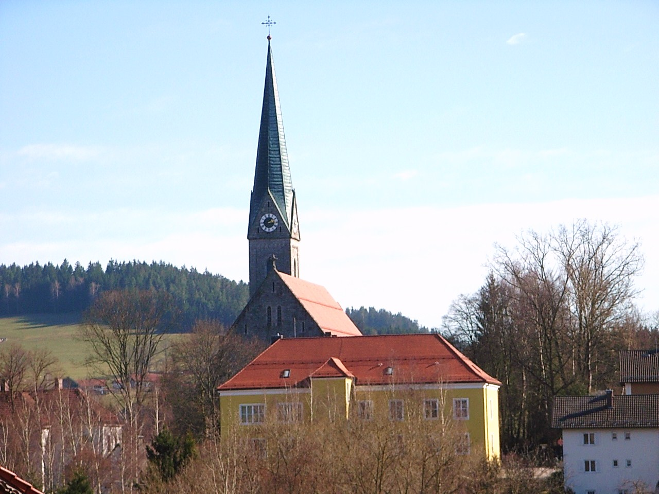 Teisnach, town hall and St Margaret Parish Church from north-east.